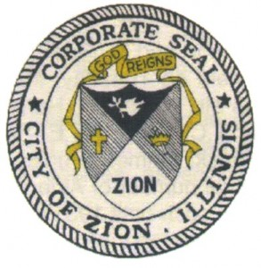 The former seal of Zion, Illinois between 1902 and 1992